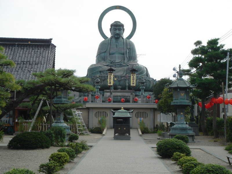 Photo of the Great Buddha of Takaoka, taken by Carlj7 on September 20, 2004.